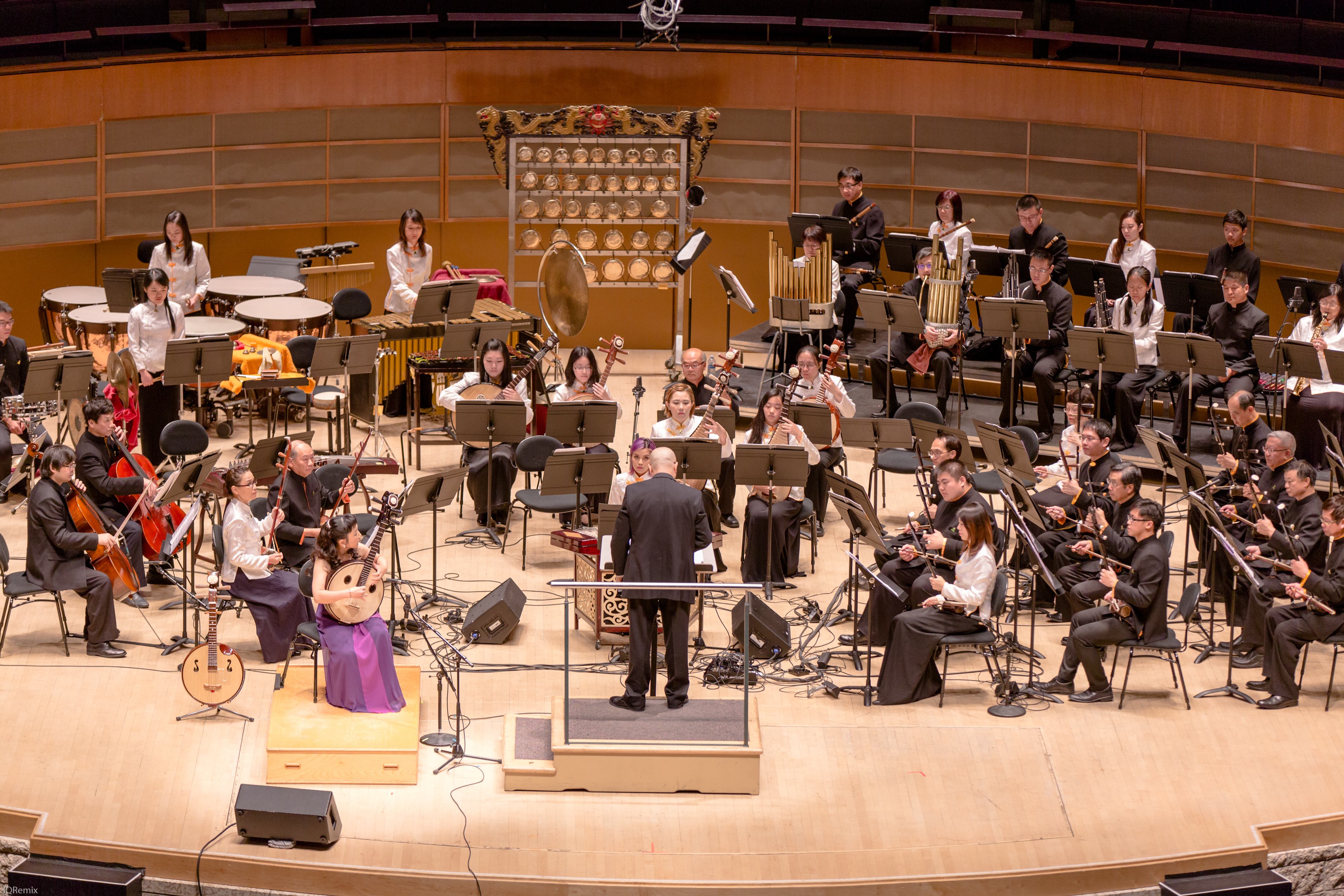 "Enchanting Rhythms of Chinese Music" concert in Edmonton